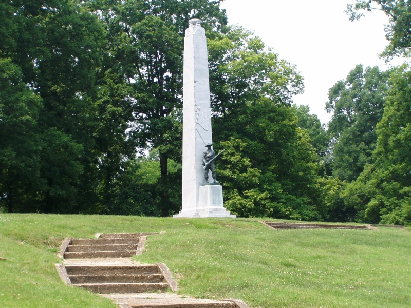 Fort Donelson National Battlefield - Confederate Memorial